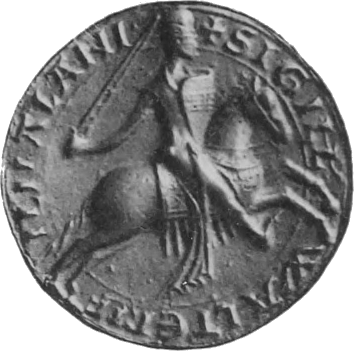 Photograph of the seal of Walter fitz Alan II, Steward of Scotland (died 1241).